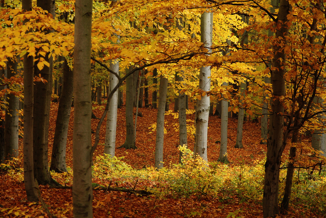 Křivoklátsko - podzimní les hraje všemi barvami